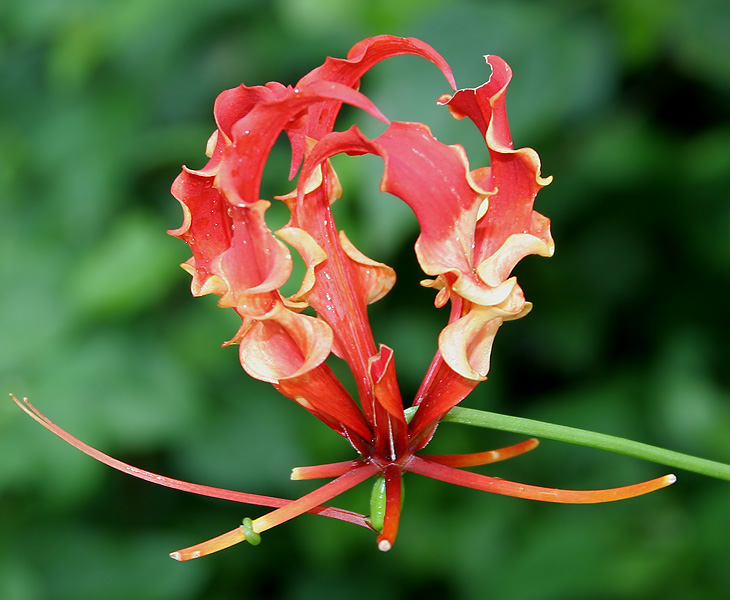 Glory Lily, Harihari, Kalihari, Karihari Languli, Langli, Visalya, Agnishike, Nabhikkodi, Jhaghadhin, Agnishikha, Kal-lawi or Kalahkari ,Tamil- "Chenkaanthal" ,State flower of Tamil Nadu. Gloriosa superba in Hyderabad , India.